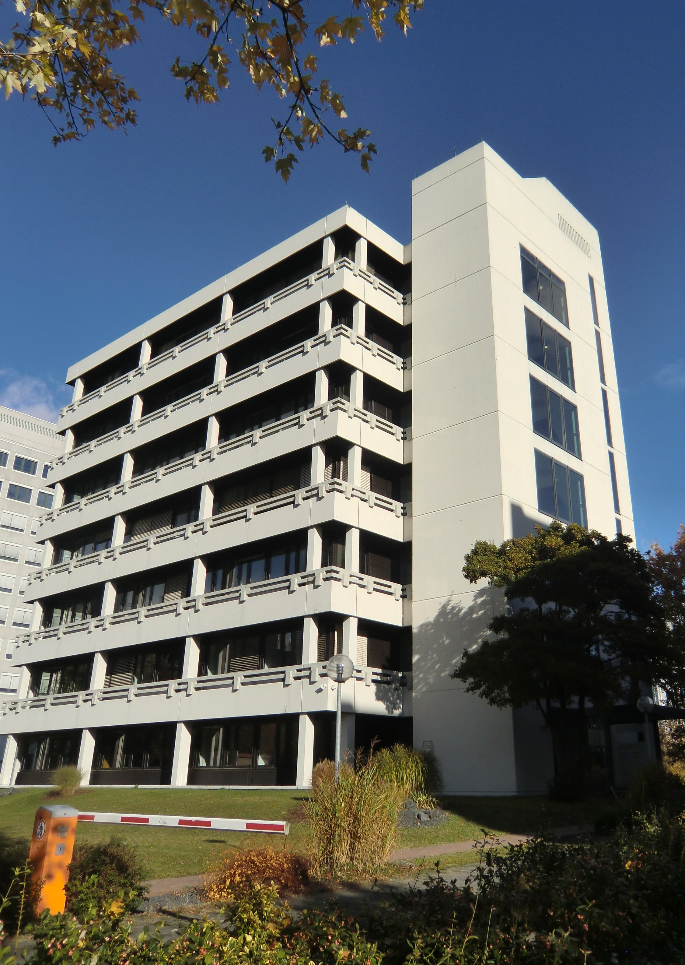 The building of the former German center for machine documentation (ZMD), in Frankfurt am Main - Niederrad ~ 2016